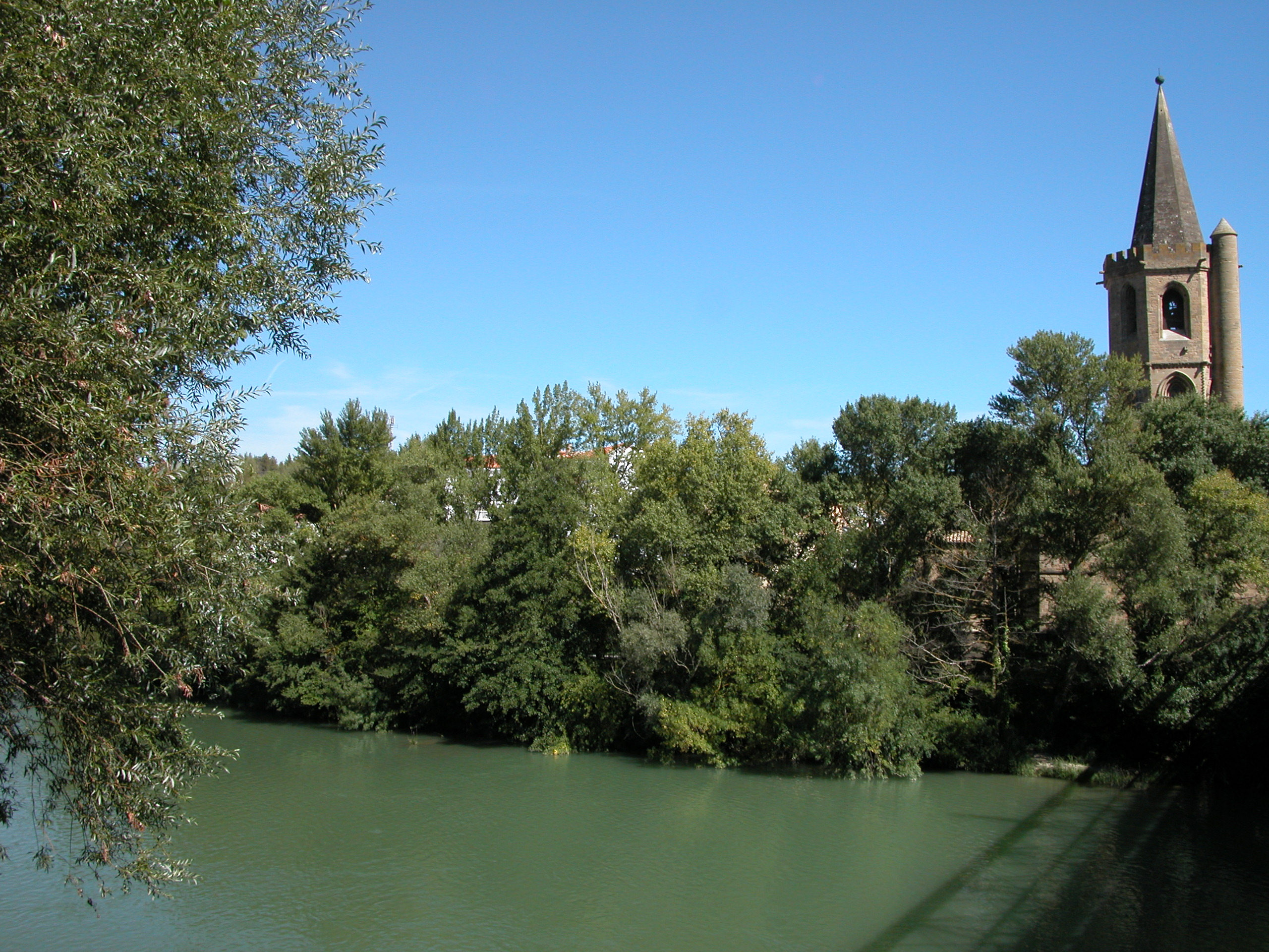 Aragon river in Sangüesa